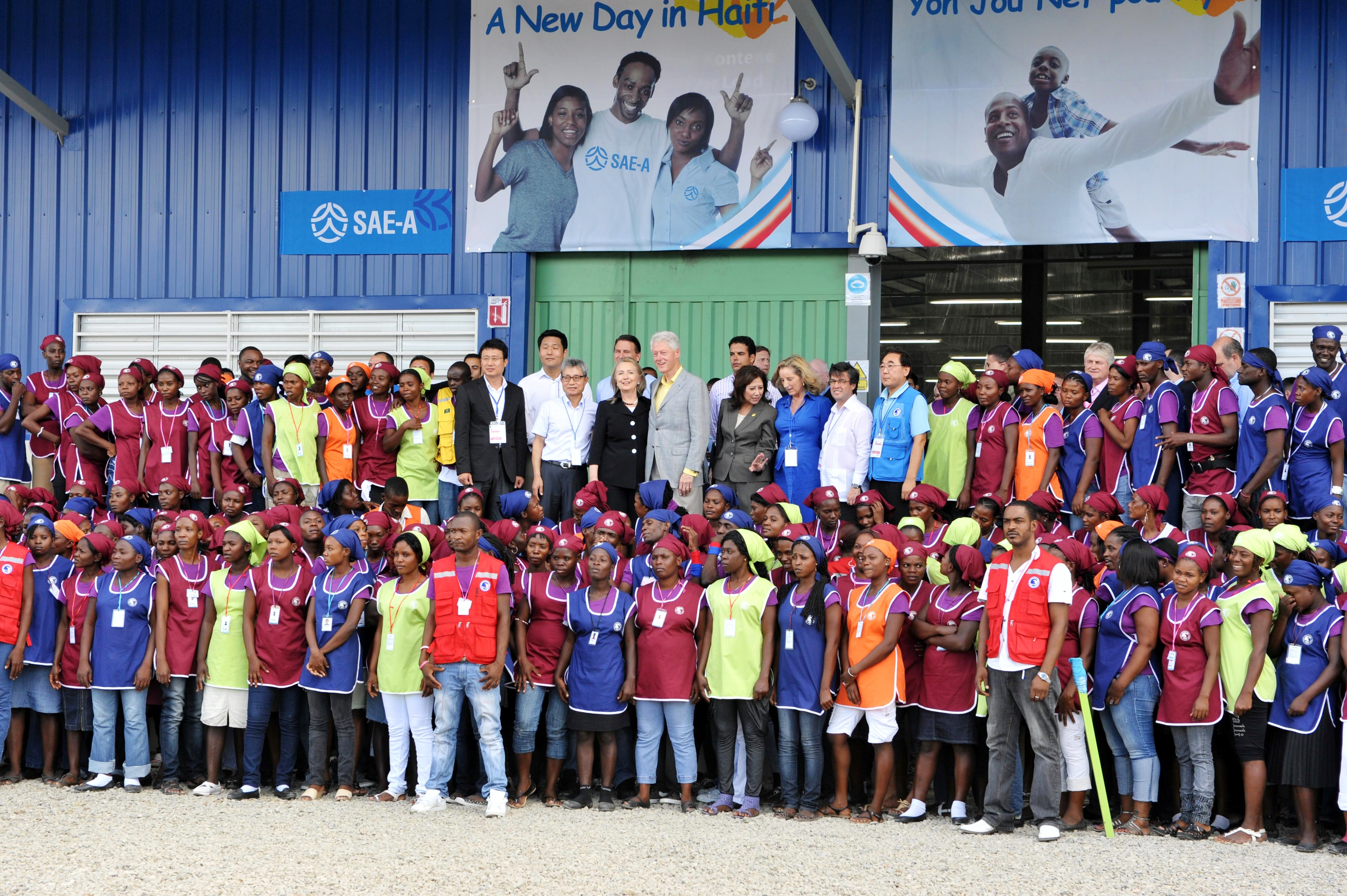 President Bill Clinton and U.S. Secretary of State Hillary Rodham Clinton pose for a photo with workers outside the Sae-A garment factory at Caracol Industrial Park ahead of the park’s inauguration in Haiti, October 22, 2012. [Photo copyright Kendra Helmer/USAID. Photo credit is mandatory.]